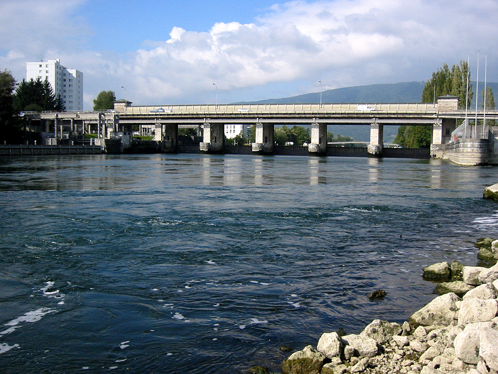 Weir at river Aar near Biel including a sluice and a power station, view from northeastern bank; Port, Berne, Switzerland